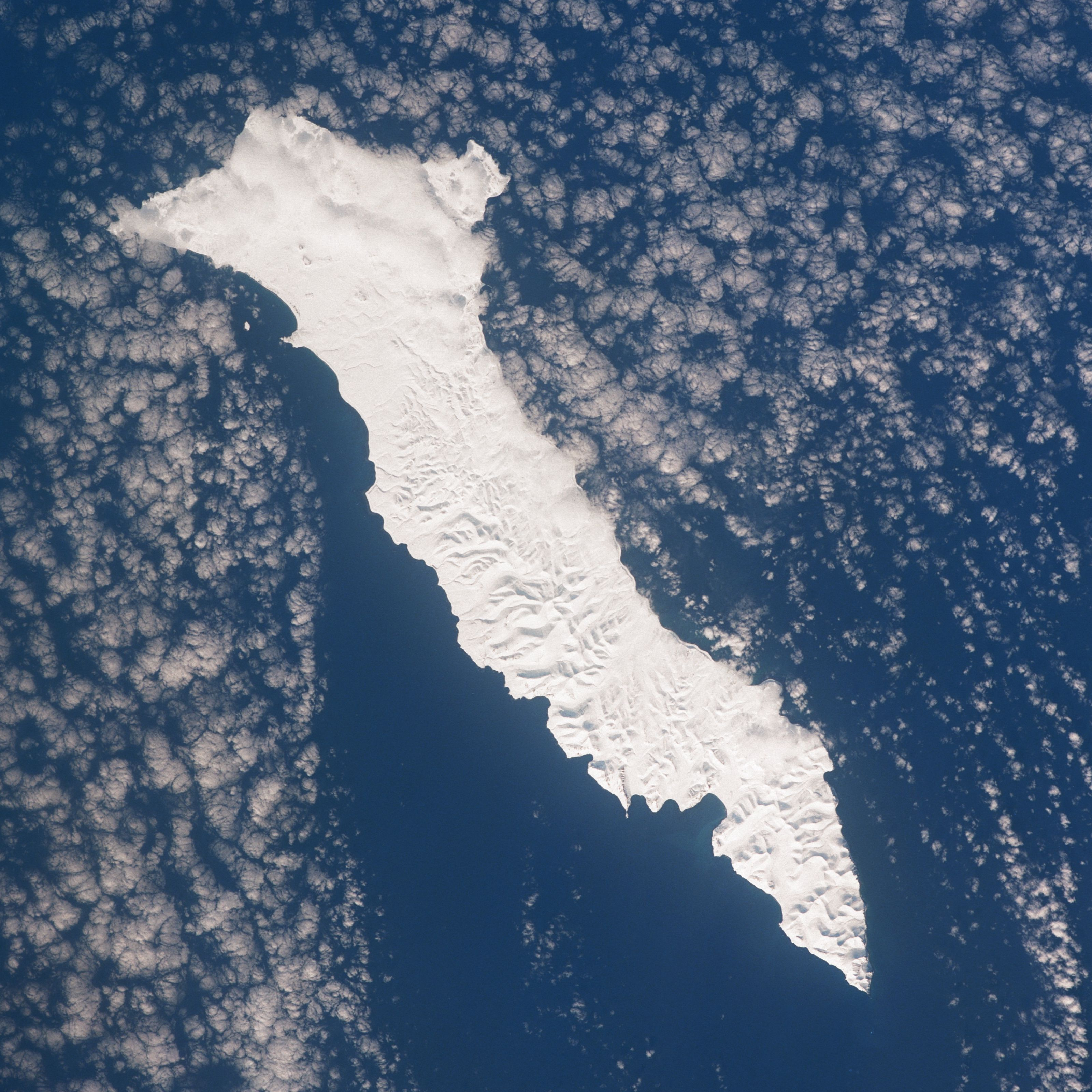 STS045-153-0AD Beringa Island, Russia March 1992 The largest of the Komandorski Islands, the snow-covered island of Beringa (Bering) can be seen in this west-looking view. Beringa Island is located east of the Kamchatka Peninsula in the Bering Sea. The island is 55 miles (90 km) long and up to 15 miles (24 km) wide. Beringa is a treeless island with hills. The island is foggy and is prone to earthquakes. The scant population on the island is involved mostly in fishing.